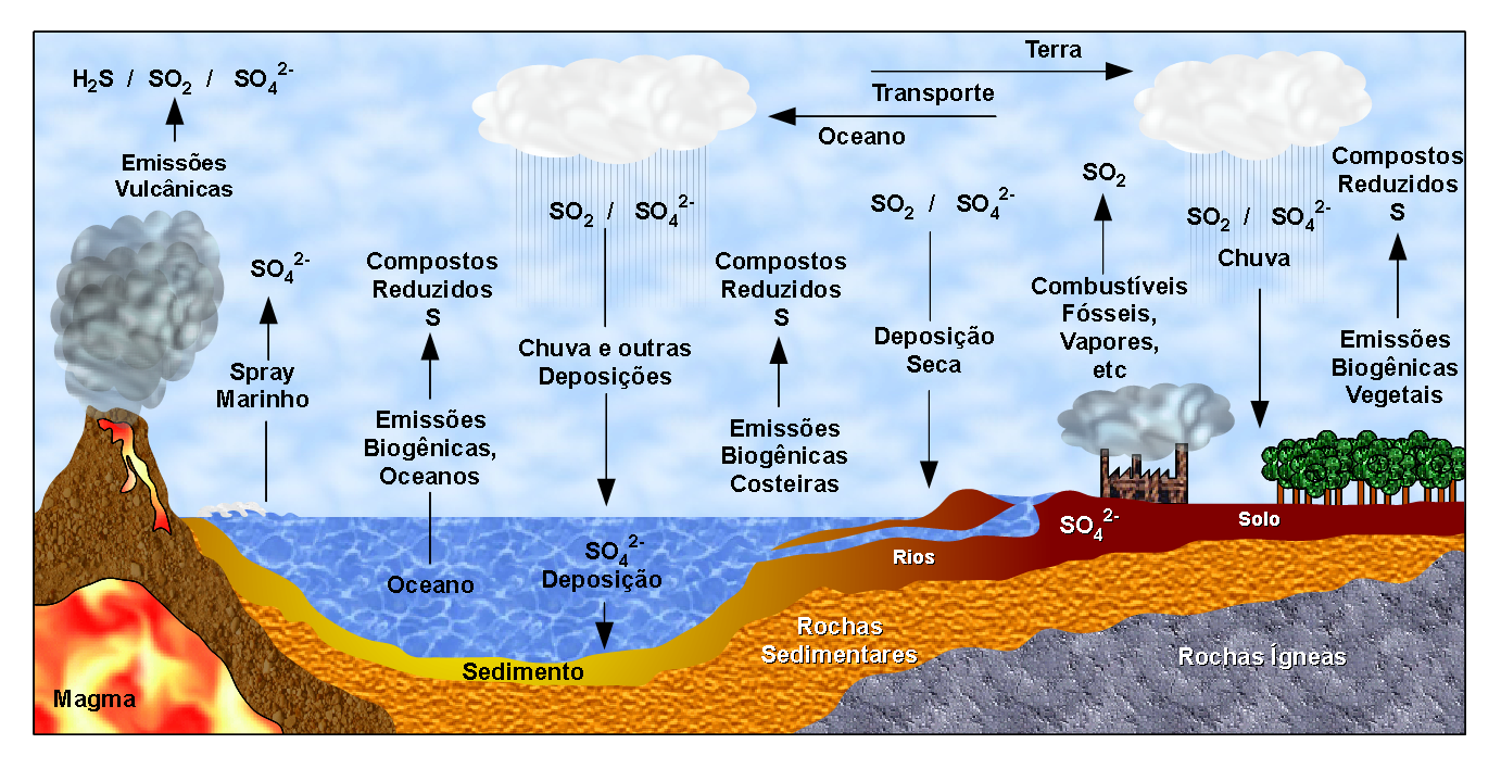 The sulfur cycle, as described by Elmer Robinson and Robert C. Robbins